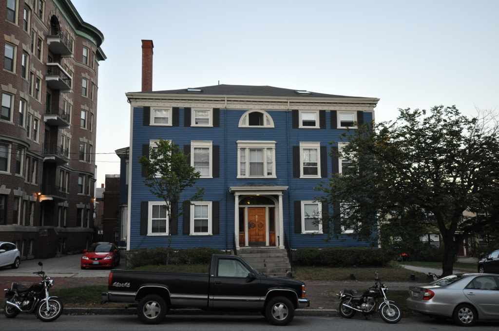 Joseph Holt Ingraham House, Portland, Maine. Also known as the Churchill House.